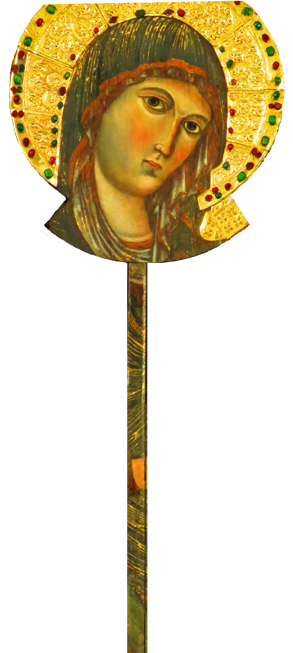 The head of Madonna Hodegetria of Montevergine